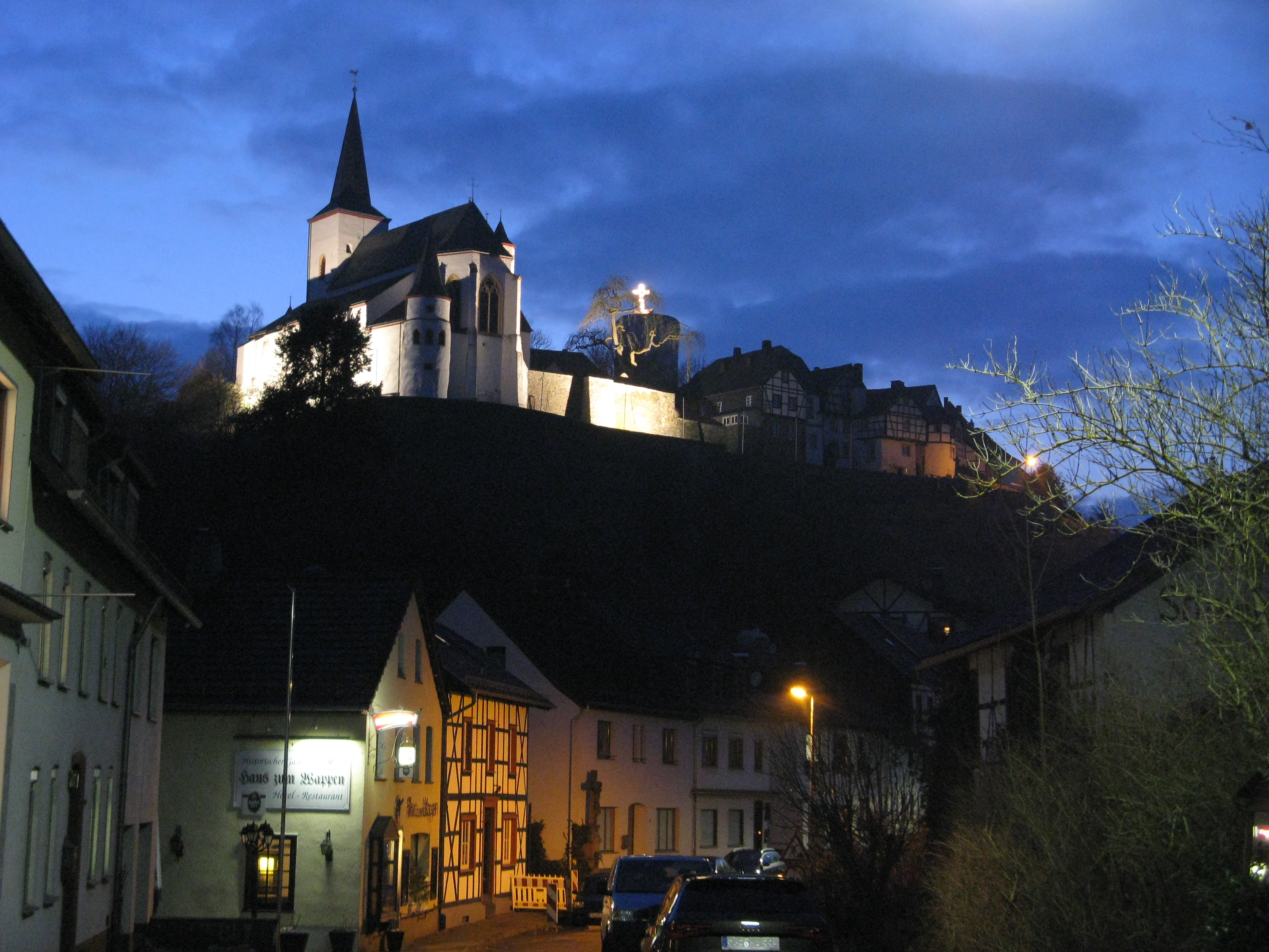 Reifferscheid castle in Hellenthal-Reifferscheidt, Northrhine-Westphalia, Germany